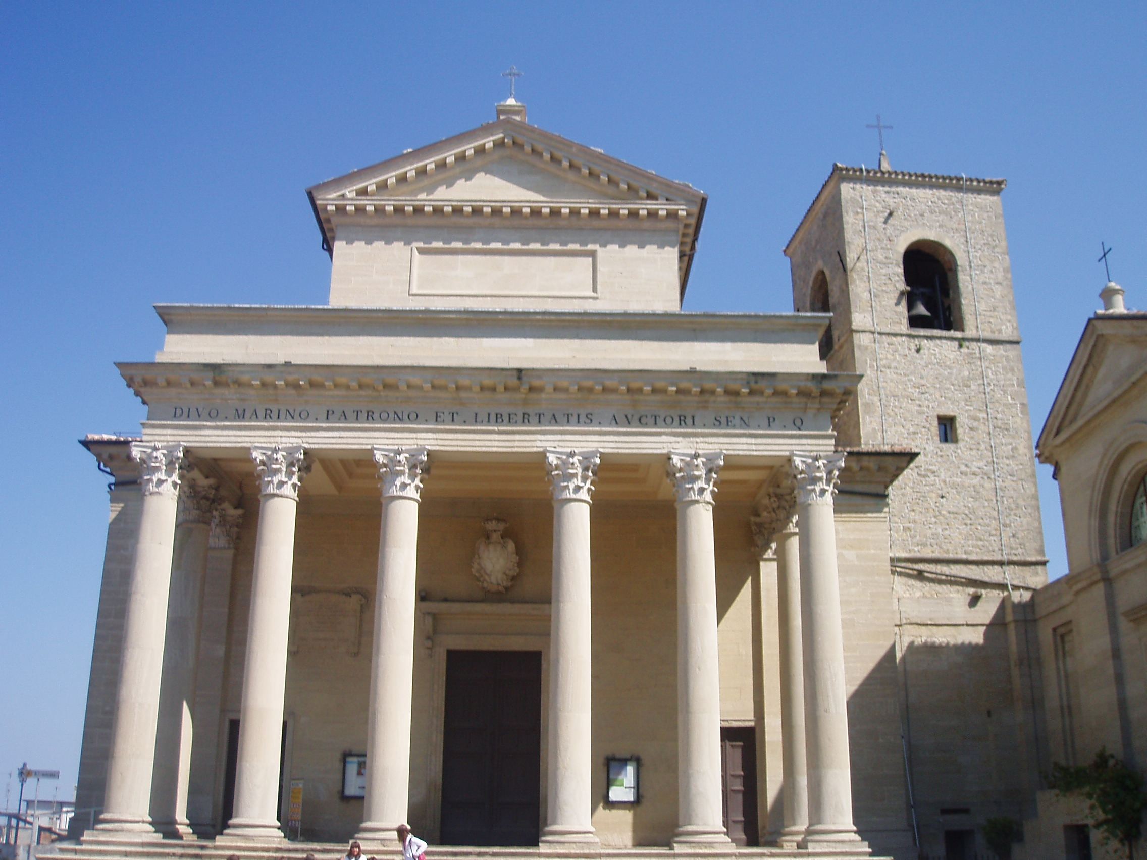 The Cathedral of the Republic of San Marino.